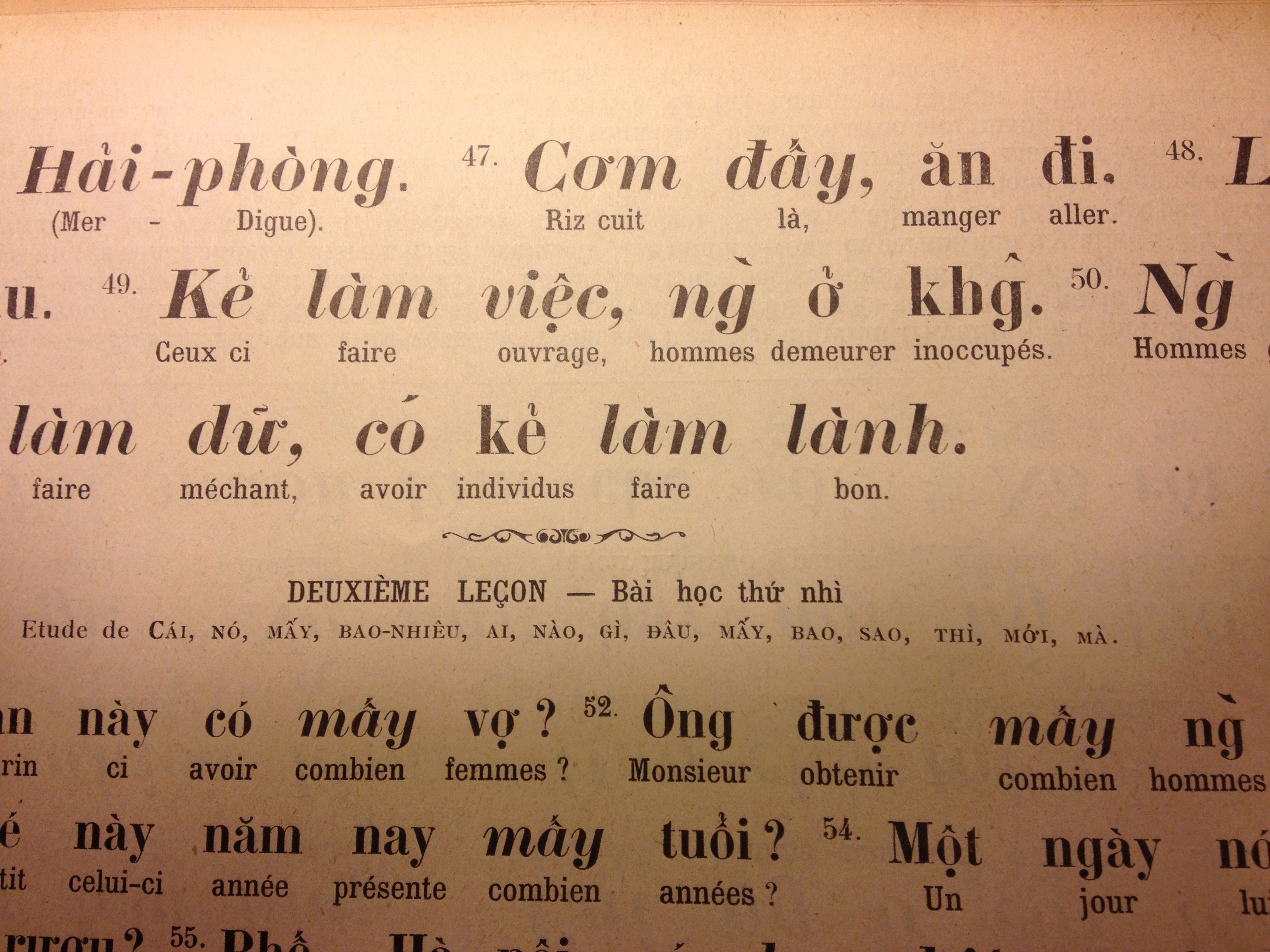 Excerpt of abbreviations of romanized Vietnamese in 1918(?)